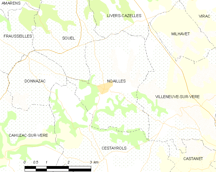 Map of French municipality Noailles